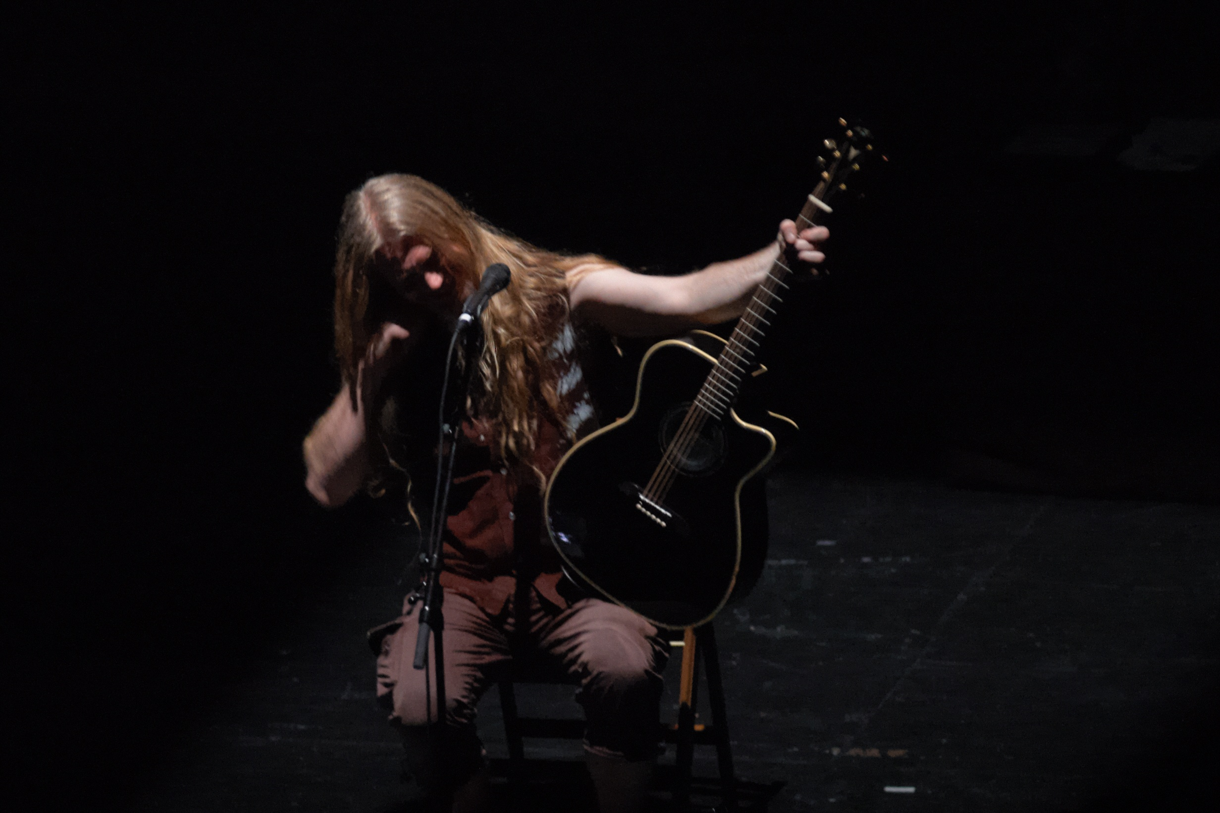 Marco Hietala live with Nightwish at Melbourne, Australia, the song is called "The Islander".